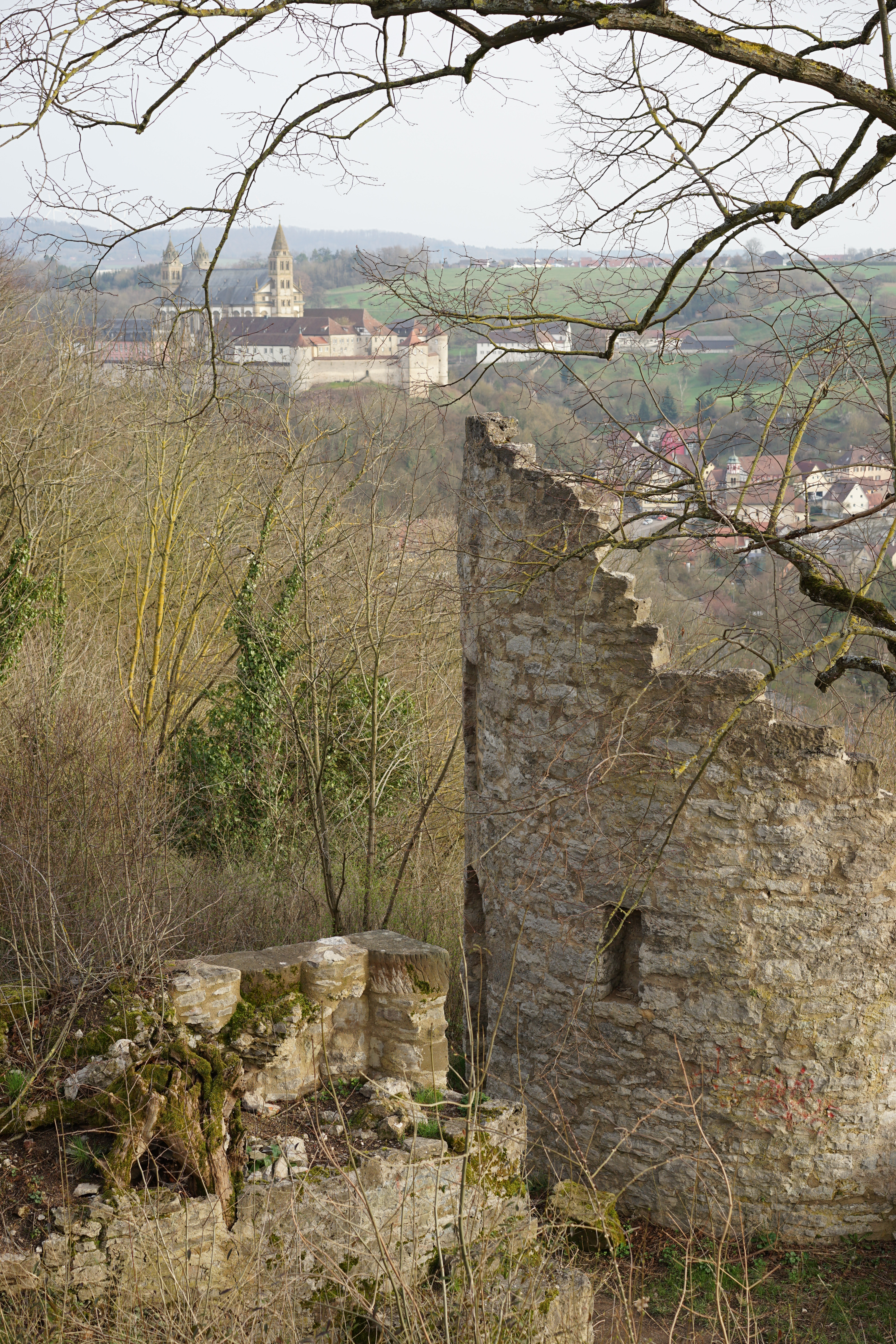 Ruins of a tower of Limpurg Castle next to Schwäbisch Hall (Germany), with view to the Comburg in the background.